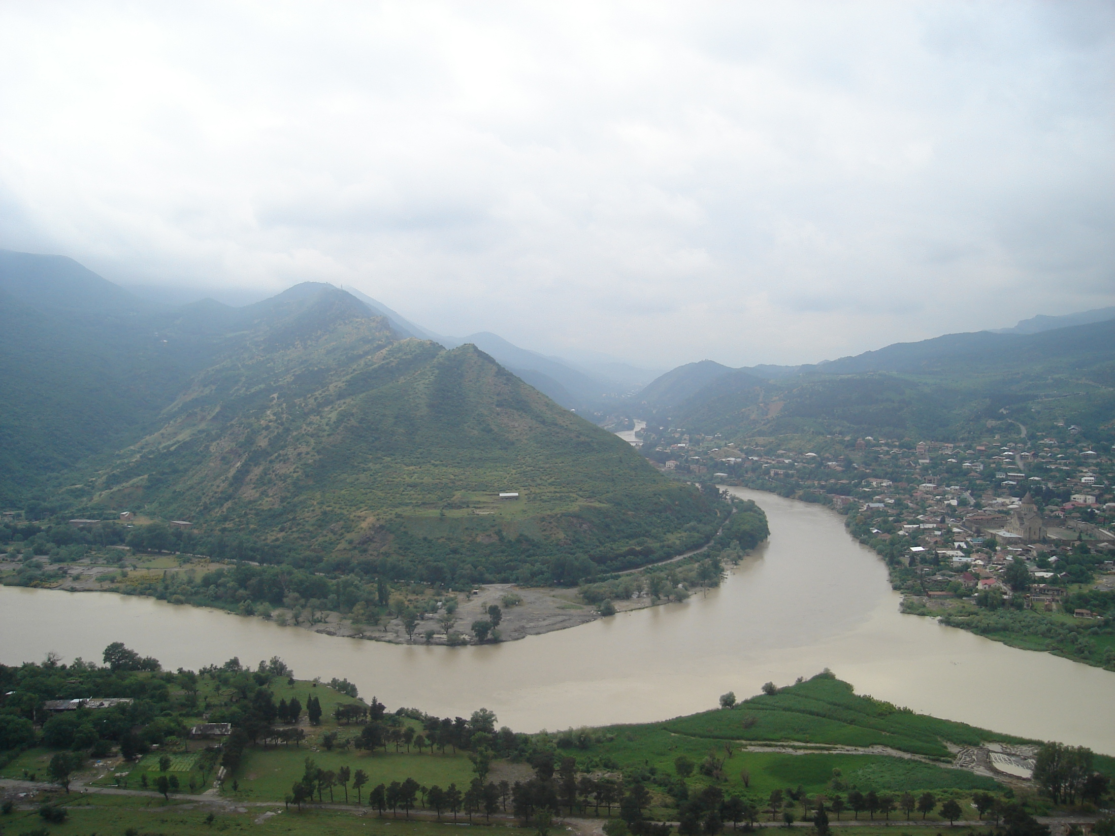 The confuence of the Mtkvari and Aragvi rivers at Mtskheta, Georgia